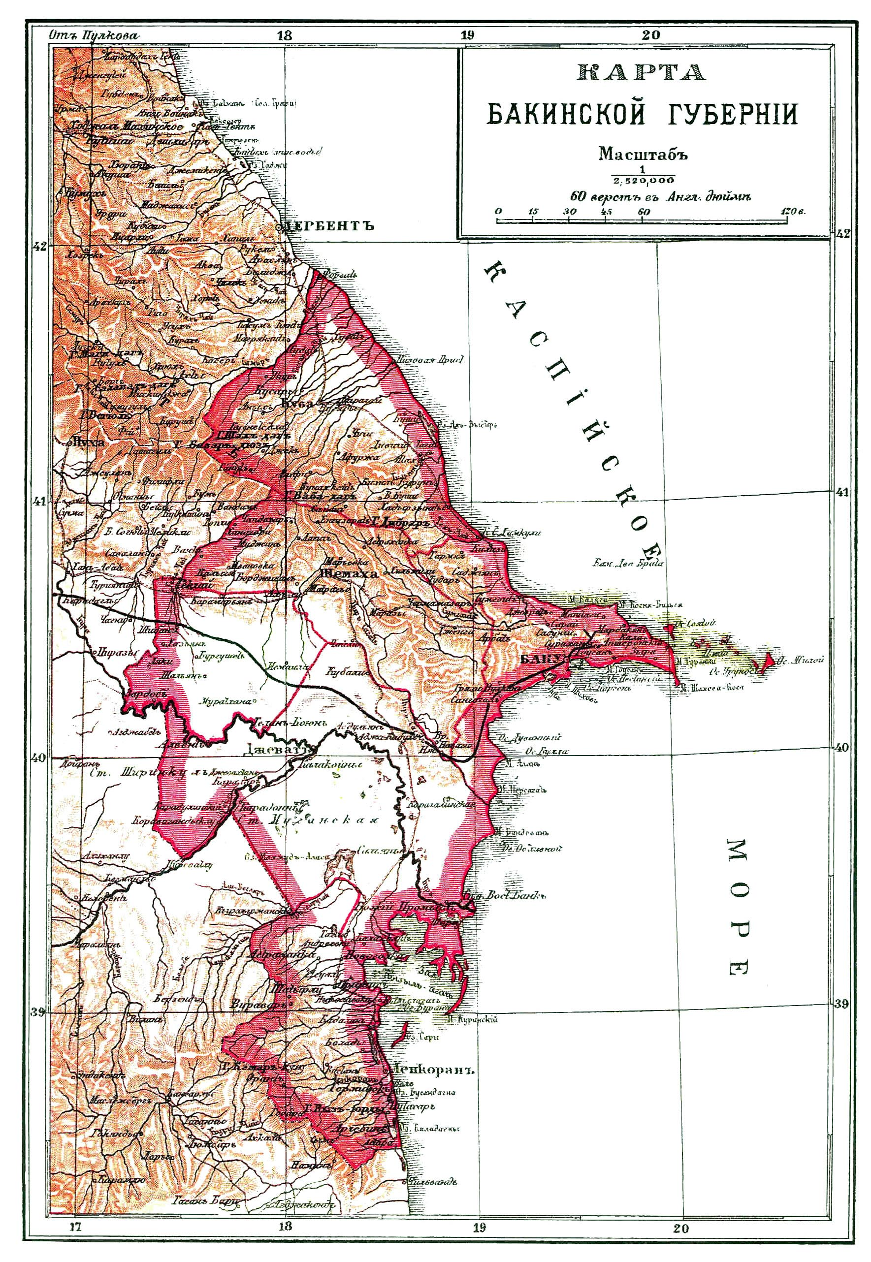 Map of Baku Governorate (late XIX century)